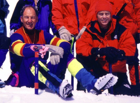 In 1996, I got to climb Mt. Rainier with Lou Whittaker as our guide. He was an wonderful guide and supberb story teller. Lou, a legend on Mount Rainier, has over 250 summits while leading thousands of novice and experienced climbers to the 14,410' summit of Mount Rainier. He has also climbed in Alaska, the Himalaya, and the Karakoram. In 1984, he led the first successful American summit of the North Col of Mount Everest. 3 team members went on to climb Mt McKinley...just 3 weeks later.